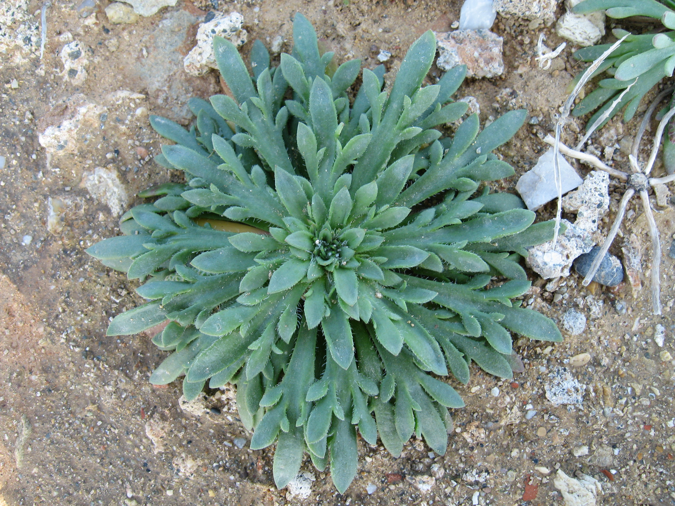 Plantago weldenii; A coastal species of Plantain (family Category:Plantaginaceae). Photo taken on 22/2/07 at a rocky coast in Heraklion of Crete, Greece.